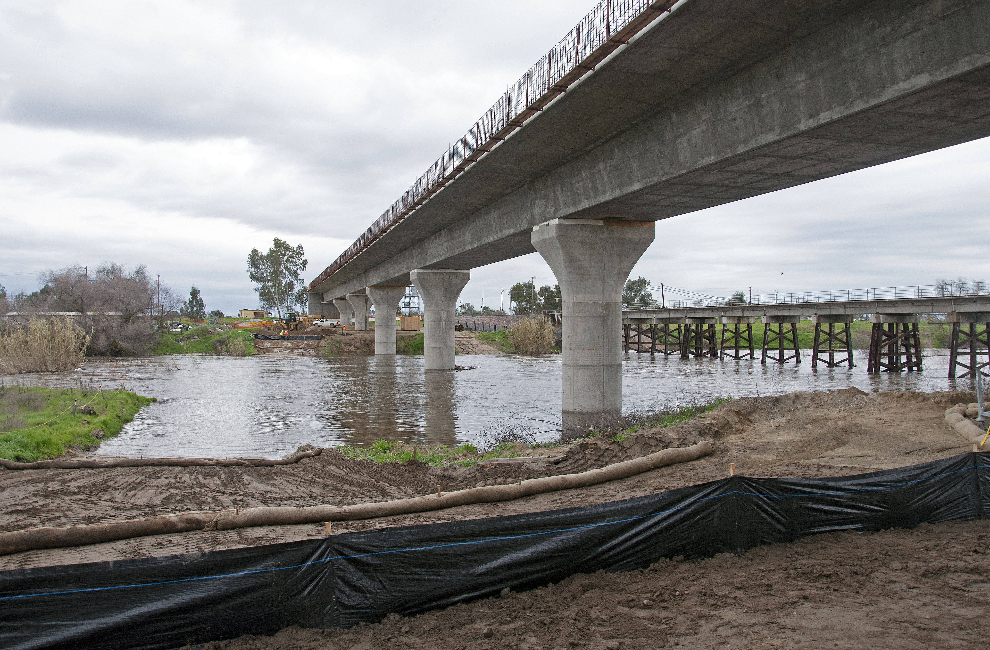 Construction of the Fresno River Viaduct in February 2017. The Fresno River, normally dry at this location, is filled with water as a result of the 2017 California floods.